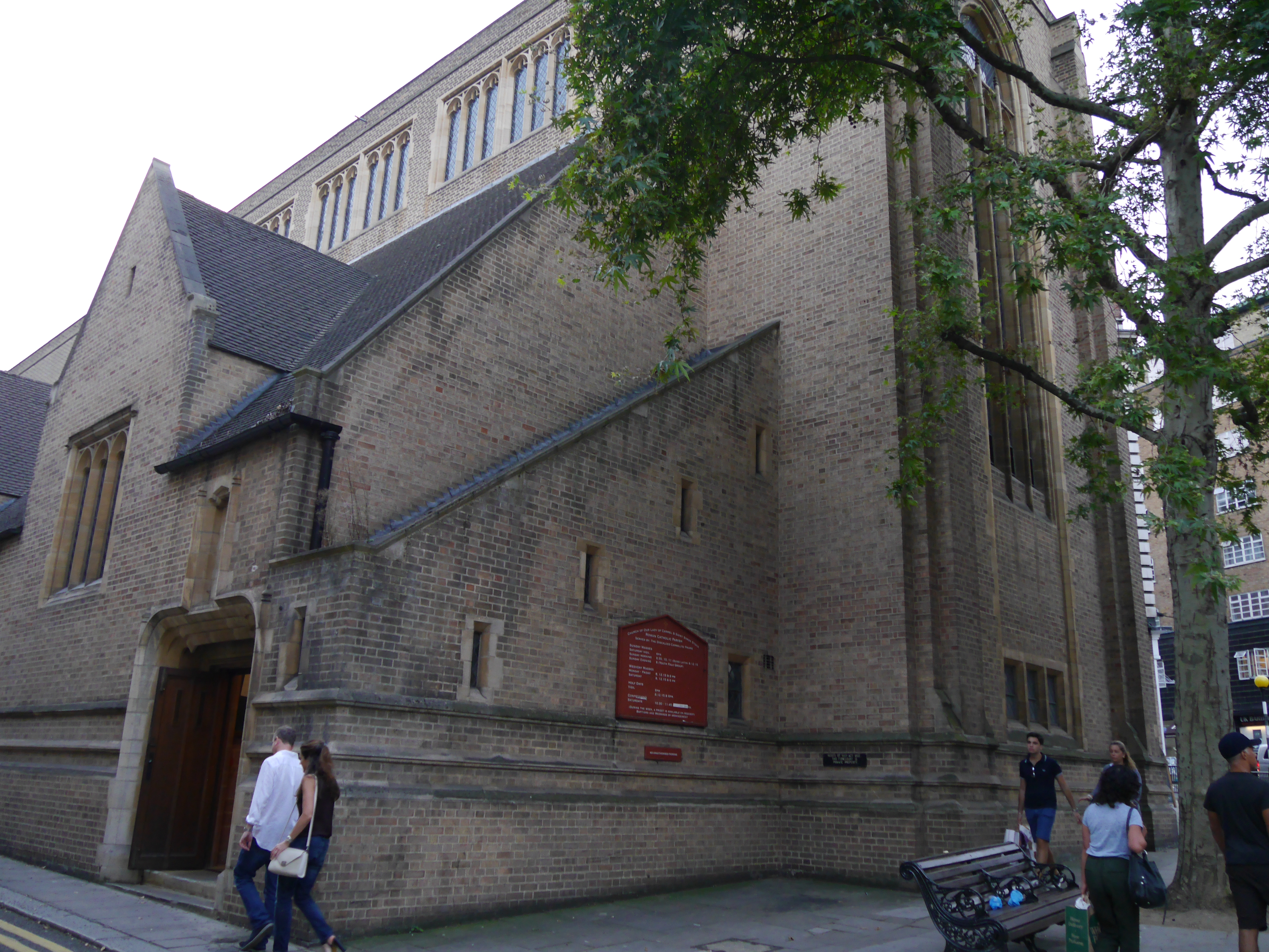 Our Lady of Mount Carmel and St Simon Stock, Kensington Church Street, Kensington, London W8